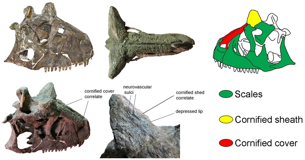 Skull of Carnotaurus (MACN-CH 894) in multiple views, with details of the skin structures inferred, and detail of the right frontal horn.